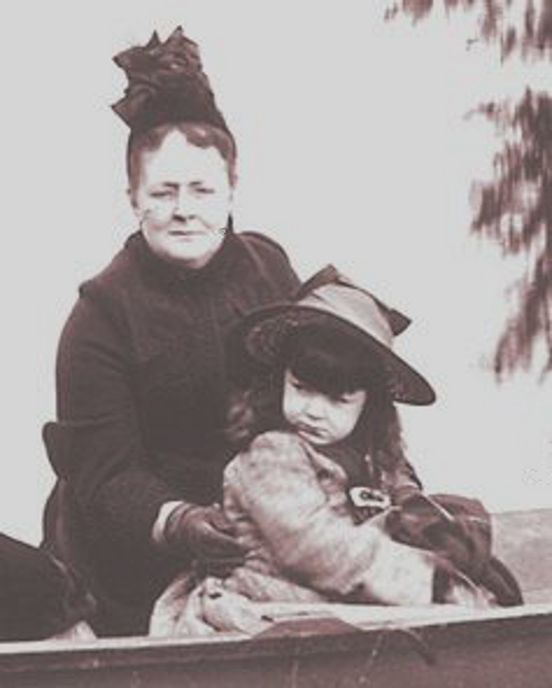 Harriet and Margaret Lothrop ca. 1890. Married Daniel Lothrop in 1881